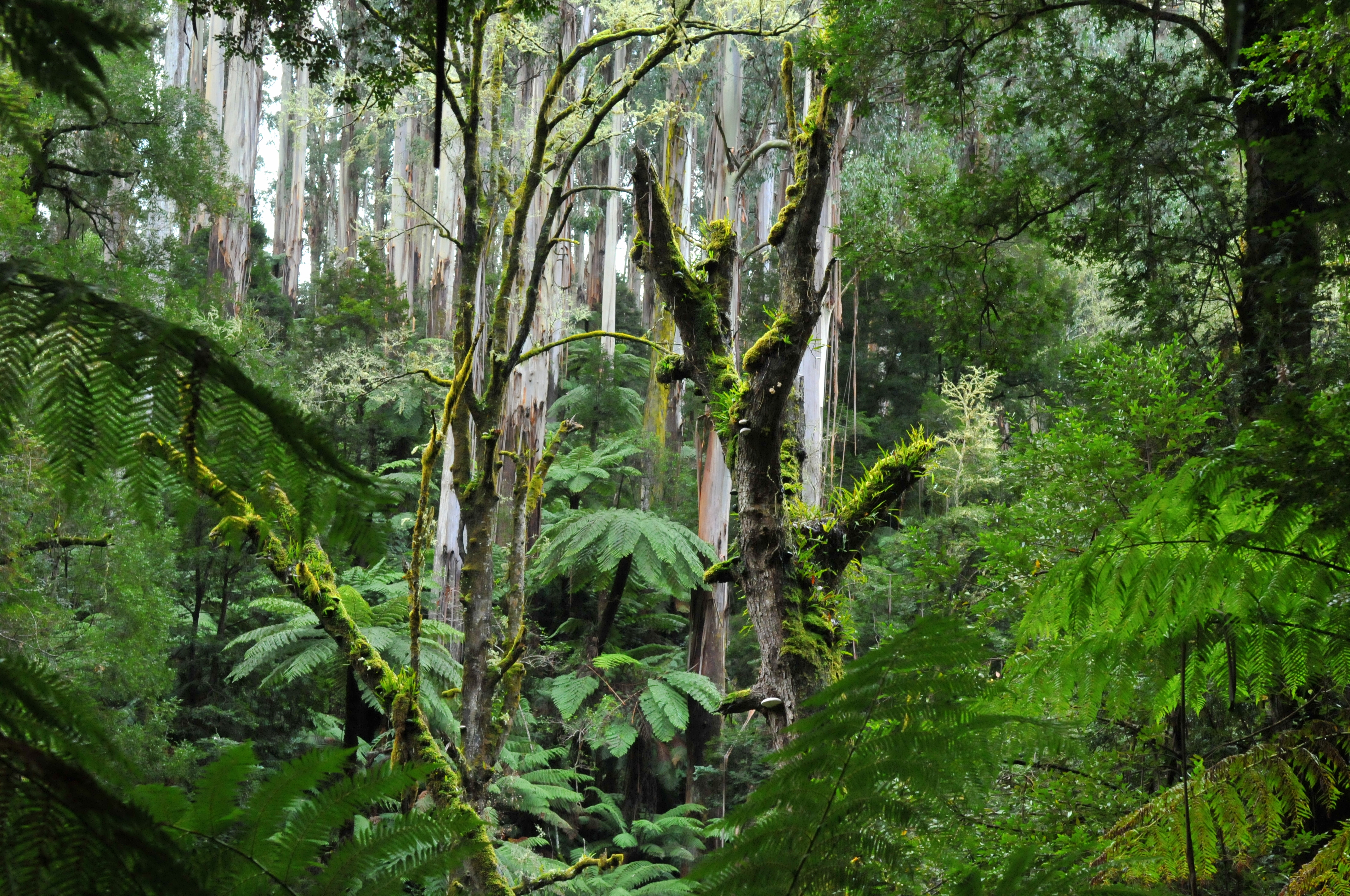 Forest scene in the Tarra-Bulga National Park near Cyathea Falls